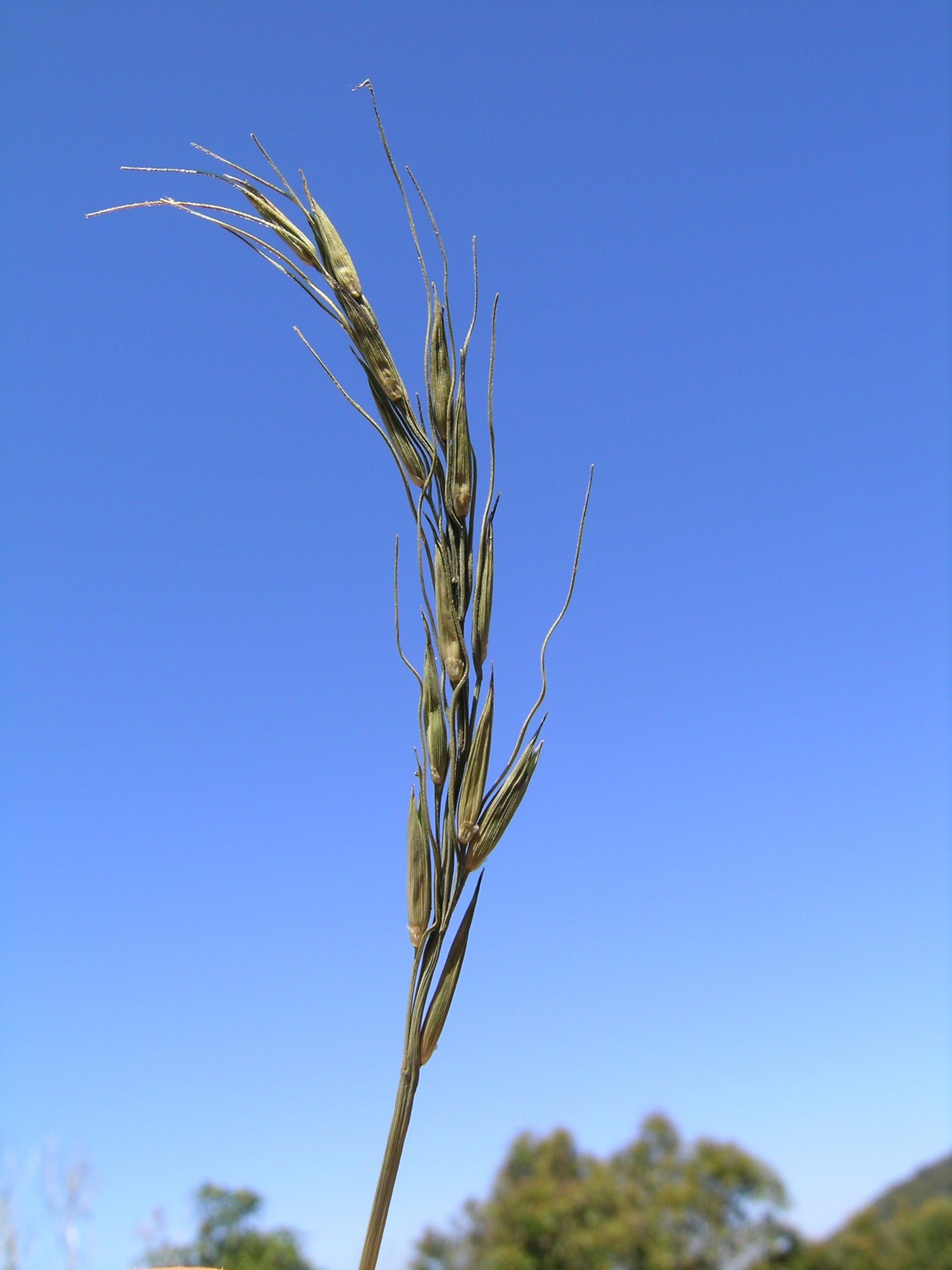 Pseudoraphis paradoxa